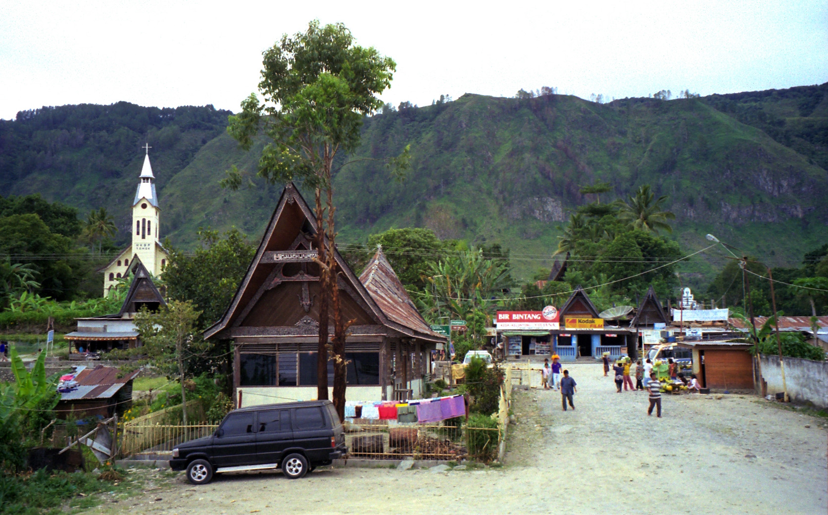 Samosir Island, North Sumatra